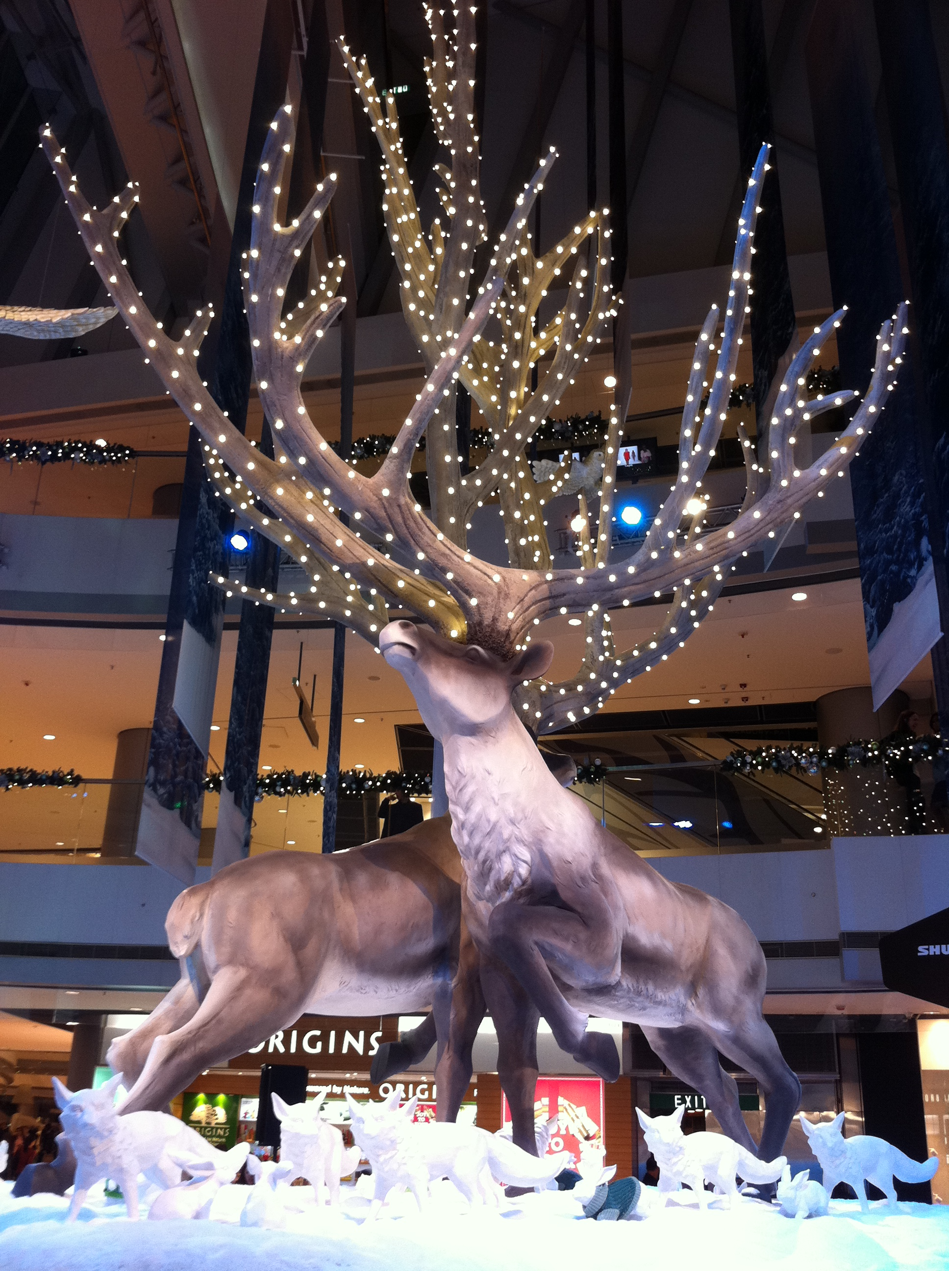 Christmas deer with lighting in IFC Mall Central, Hong Kong 中環國際金融中心商場